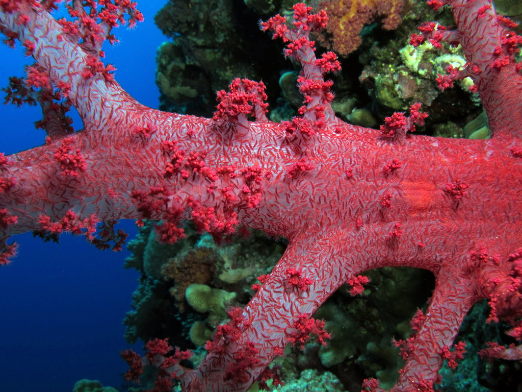 Corrals at Elphinstone Reef, Red Sea, Egypt